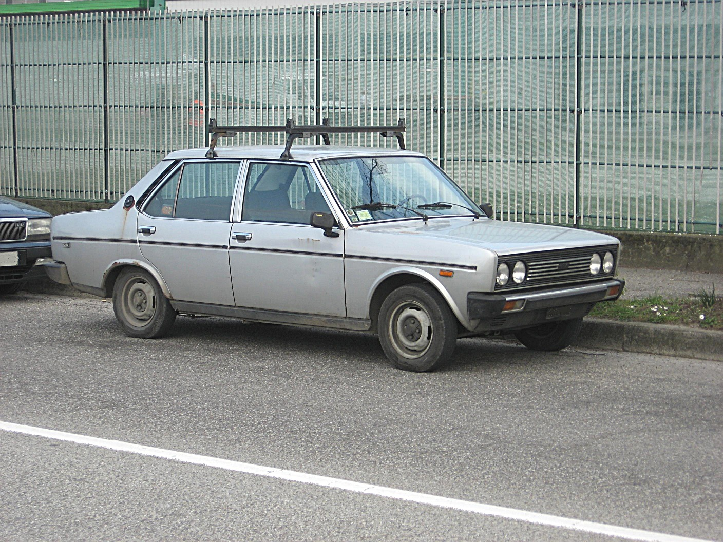 Subject:Fiat 131 Author:Luc106 Date:March 15th, 2007 Event:Old Timer Show 2008 Place/Country: Forlì, Italy I release all rights in the public domain.